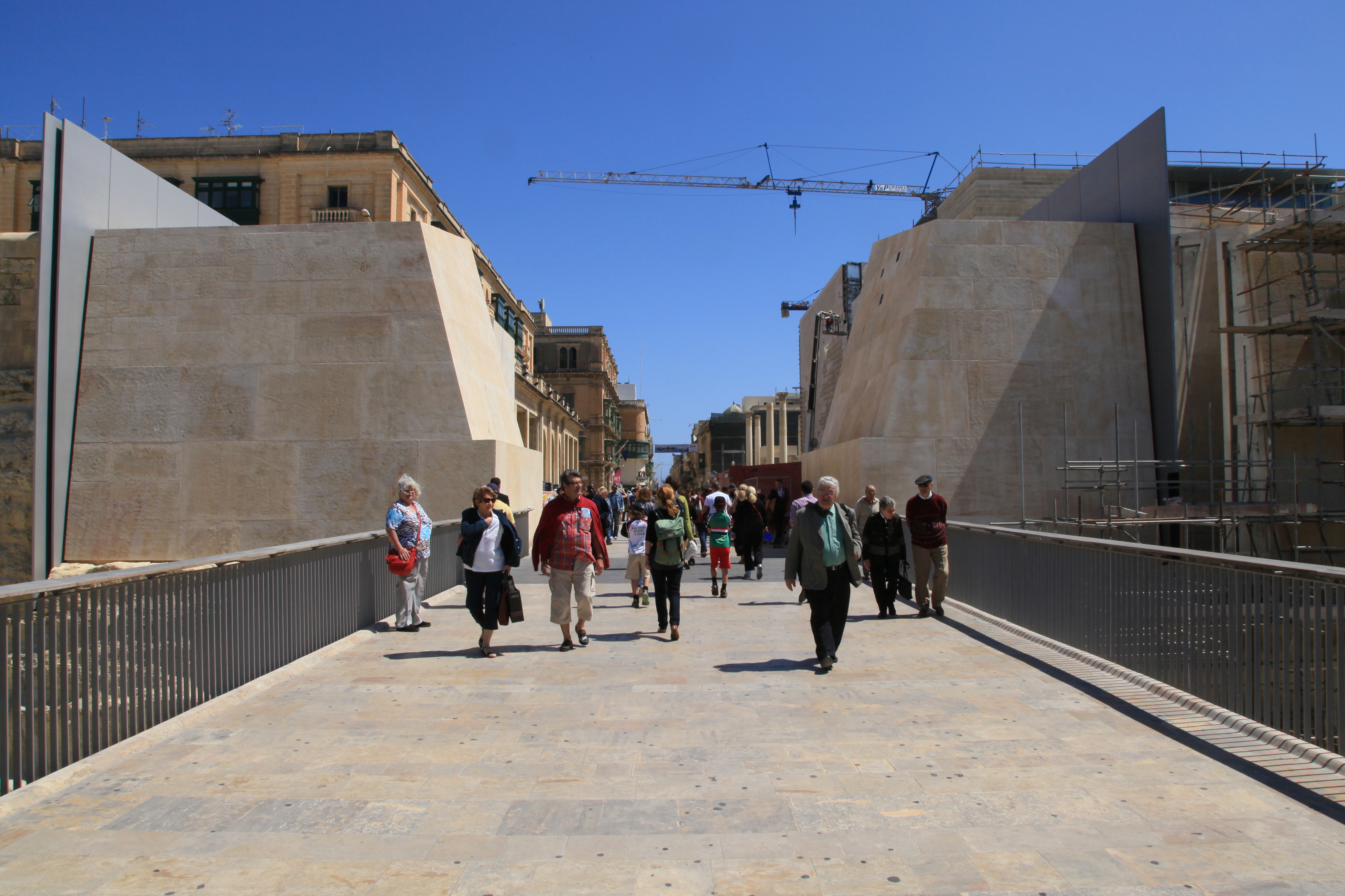 City Gate and City Gate bridge, Triq ir-Repubblika in Valletta, Malta